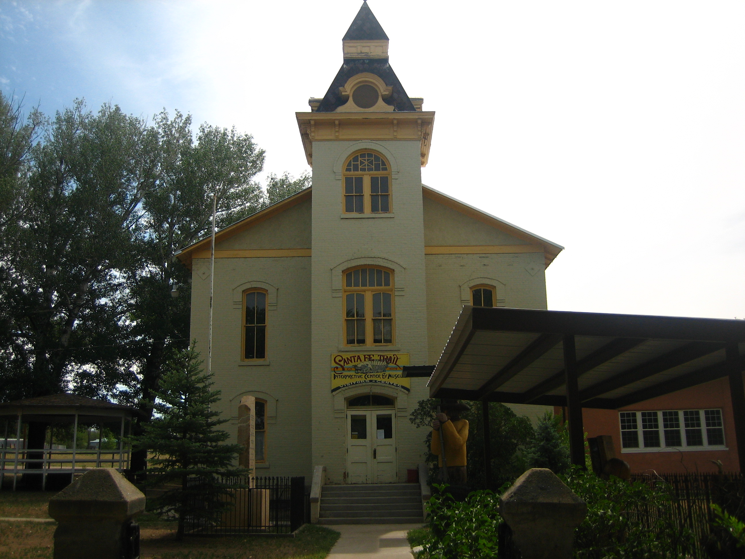 I took phot on July 14, 2008.Billy Hathorn (talk) 21:30, 19 September 2008 (UTC)